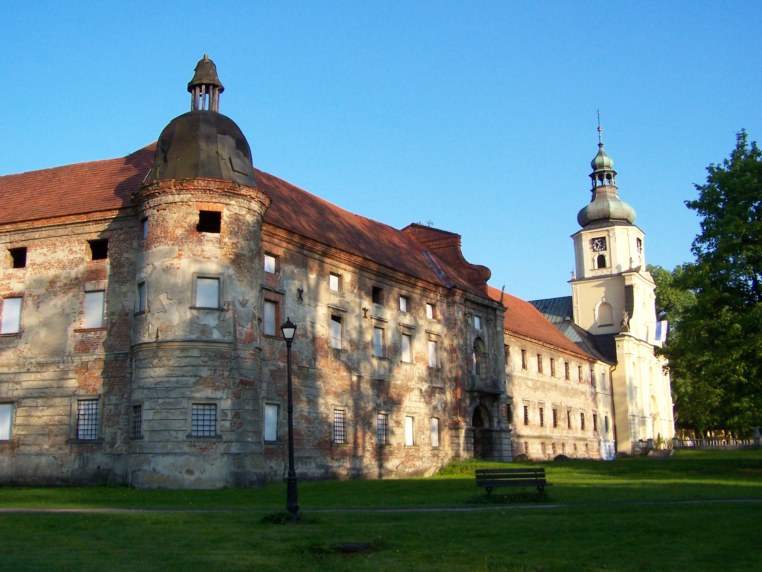 Cistercian abbey of Rudy (Poland).